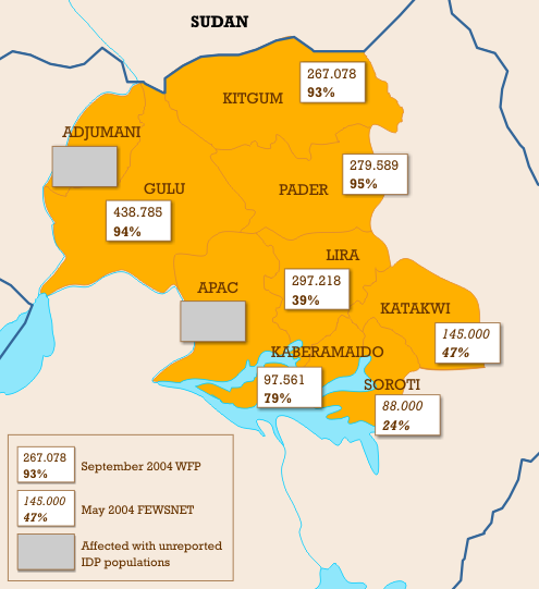 Number of IDPs, and IDPs as a percentage of total population in the Districts within the Northern Region of Uganda. Regarding the Lord's Resistance Army, in 2004/2005.